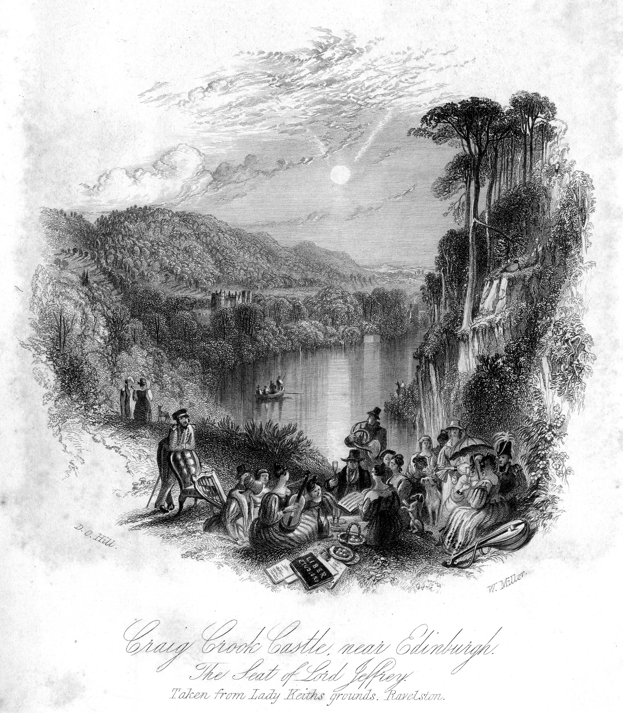 Craig Crook Castle, near Edinburgh engraving by William Miller after D.O. Hill, published in The Miscellaneous Prose Works of Sir Walter Scott, Bart. Embellished with Portraits, Frontispieces, Vignette Titles and Maps. The Designs of the Landscapes from Real Scenes by J.M.W. Turner, R.A.. Edinburgh: Robert Cadell, Edinburgh; Whitaker, Arnot, and Company, London; John Cumming, Dublin 1834 - 1836